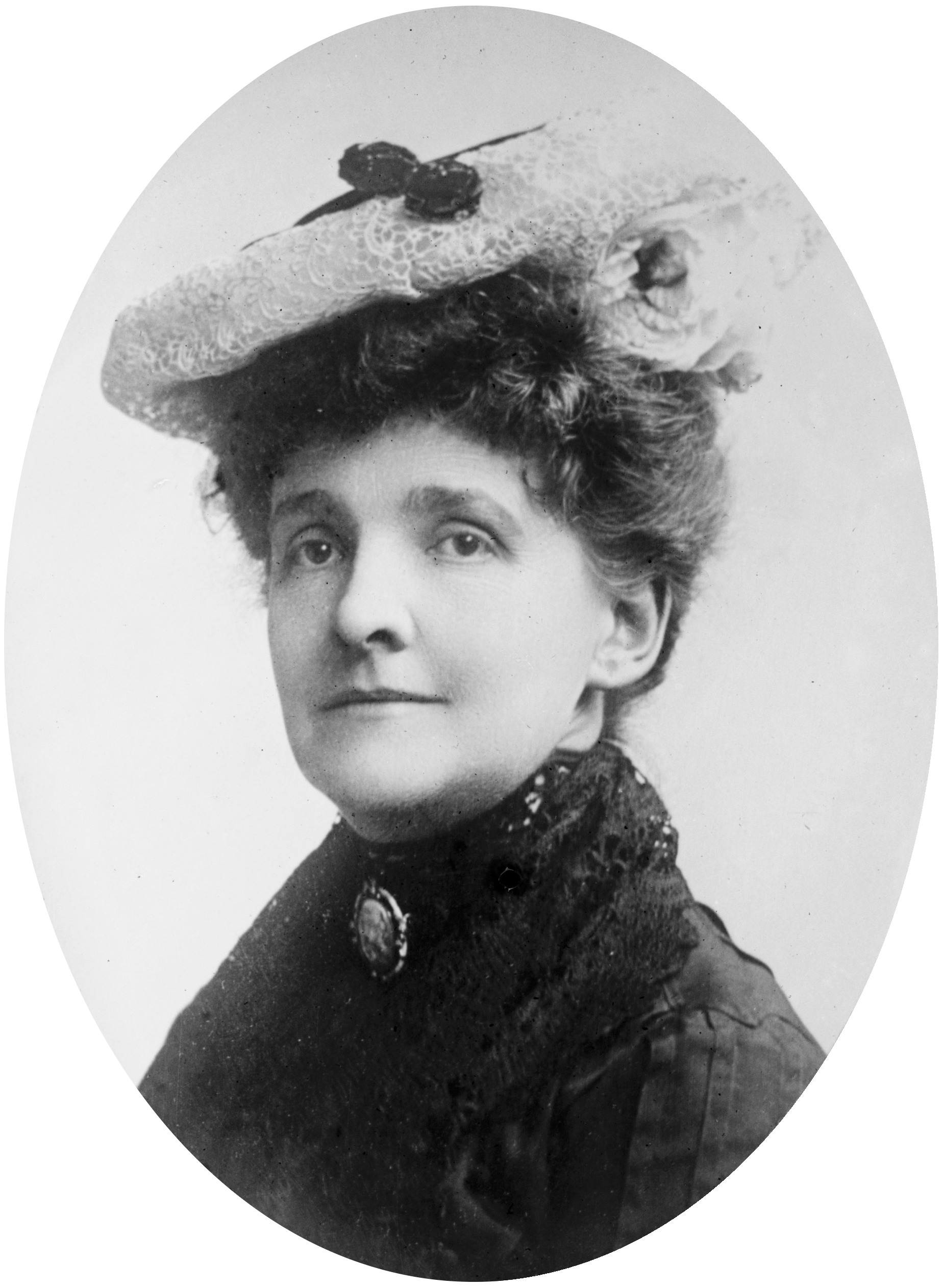 Posed portrait